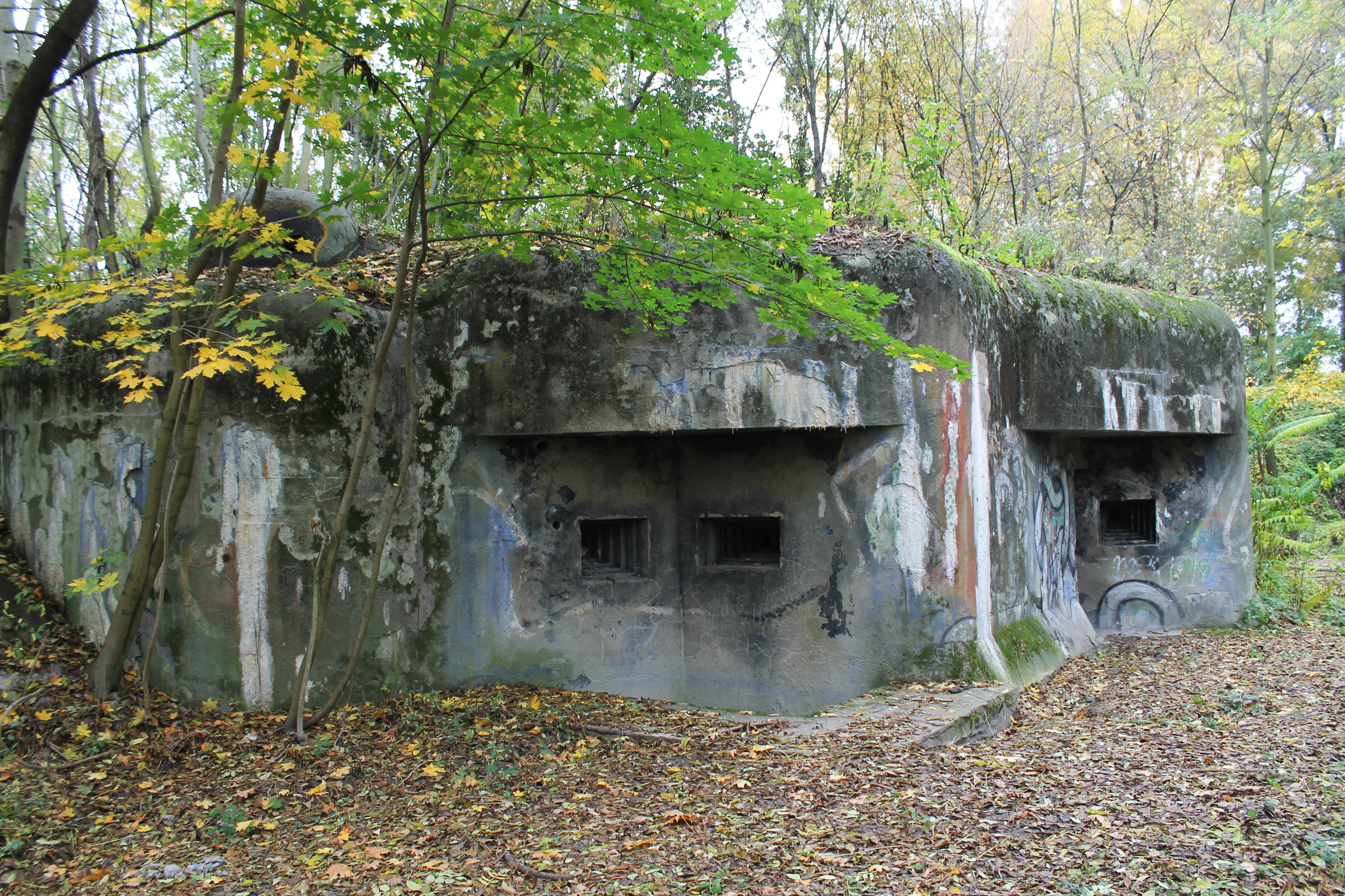 B-S 1 Štěrkoviště infantry casemate, Bratislava, Slovakia - Google Maps - Google Earth